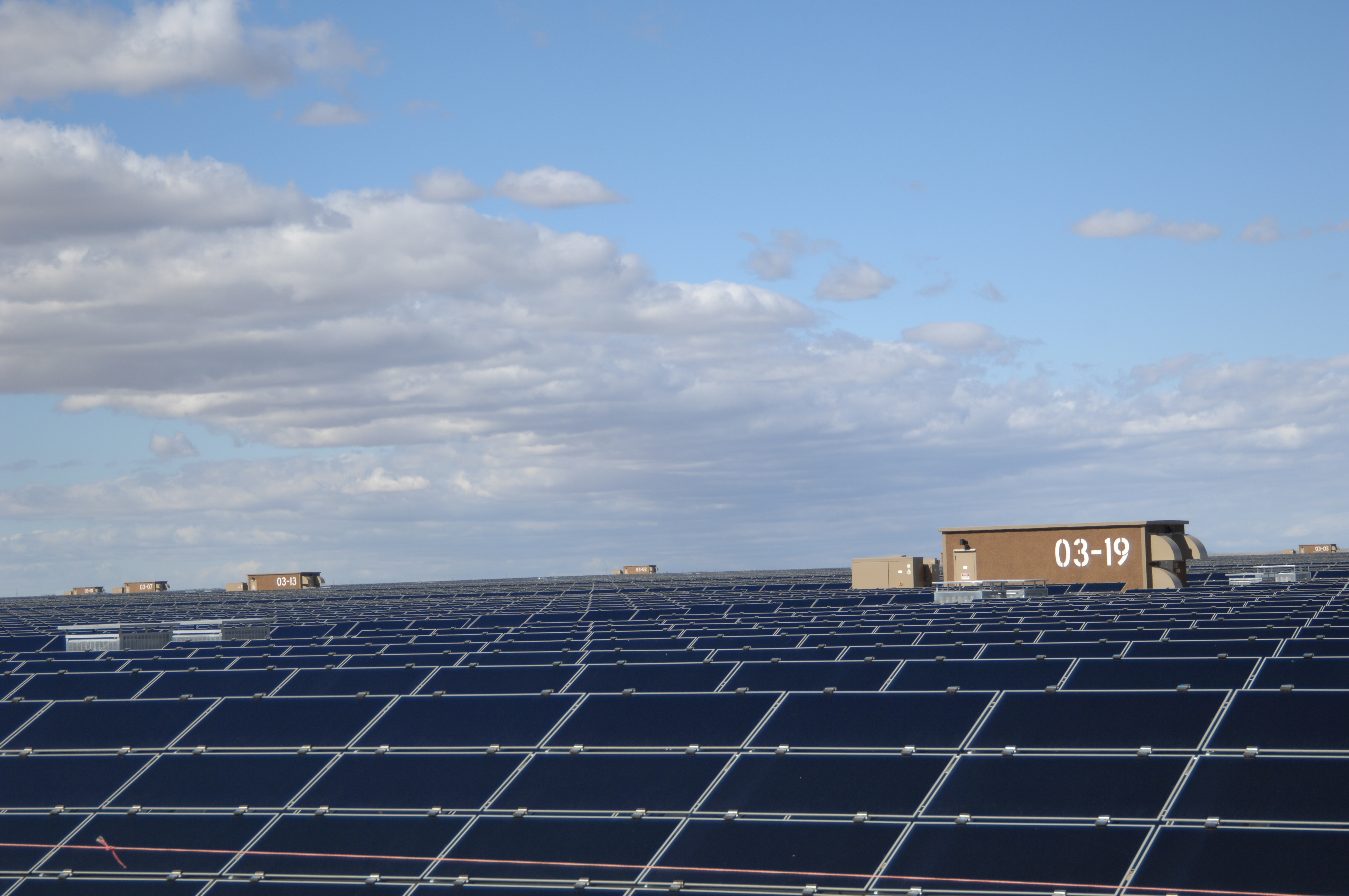 Photo Credit: Sarah Swenty/USFWS